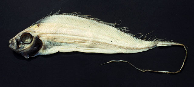 Desmodema polystictum